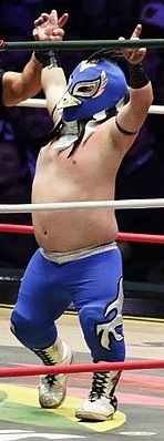 Professional wrestler El Gallito during a match on November 30, 2018